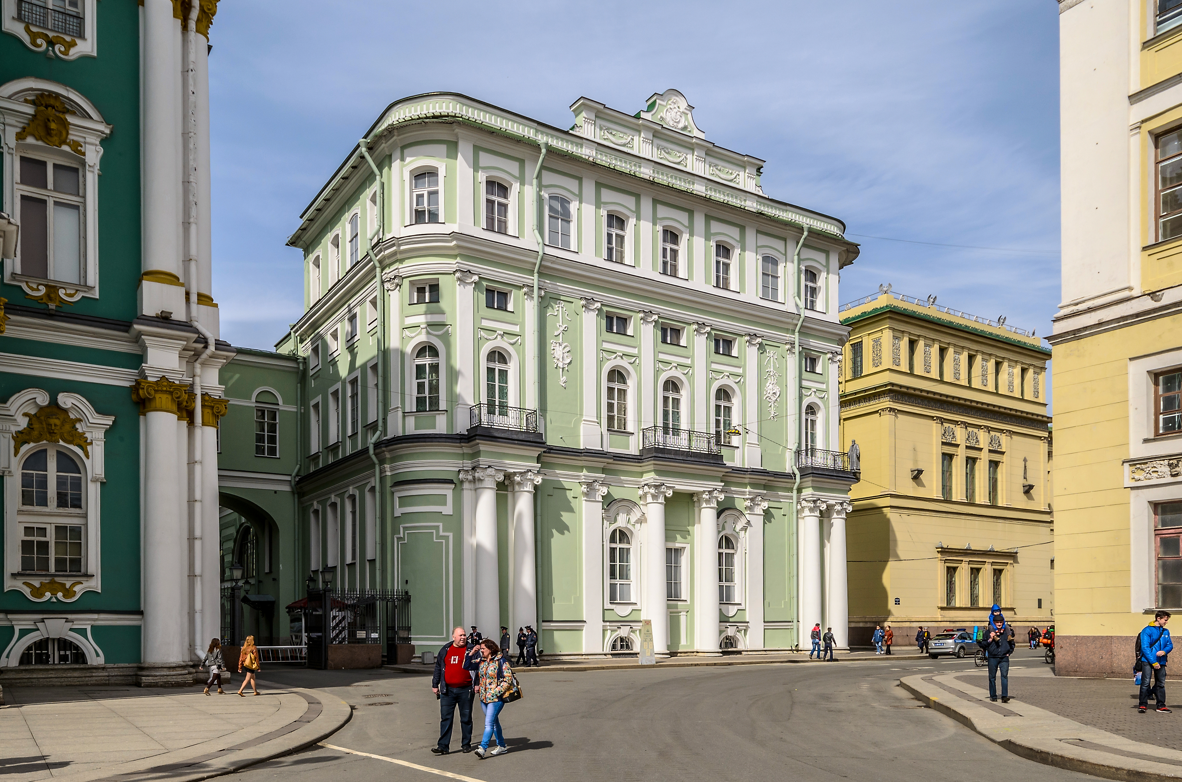 Small Hermitage Building in Saint Petersburg